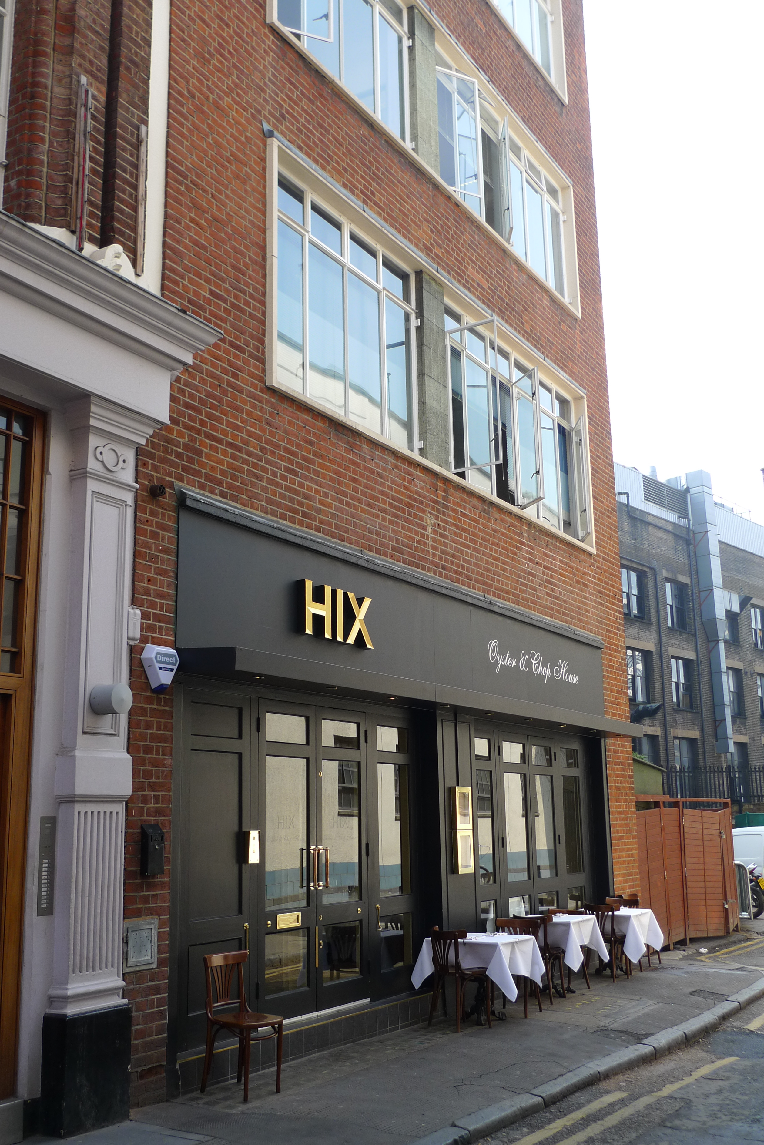 A well-regarded restaurant in this busy area, and it is indeed very fine indeed. They have a bit of spare seating at the bar for those who haven't booked.. Good for the meat-eaters. (Photo of menu starters and mains, and puddings, Feb 2010.) (Photos of wild rabbit, duck's egg, beef & oyster pie, roast partridge, ice cream and Welsh rabbit.) Address: 36-37 Greenhill Rents, Cowcross Street. Owner: (website). Links: Randomness Guide to London London Eating Qype --- The Evening Standard [Charles Campion] The Independent [John Walsh] Metro [Marina O'Loughlin] The Observer [Jay Rayner] --- Bellaphon [Les] Dos Hermanos [Robin Majumdar] London Eater [Kang Leong]